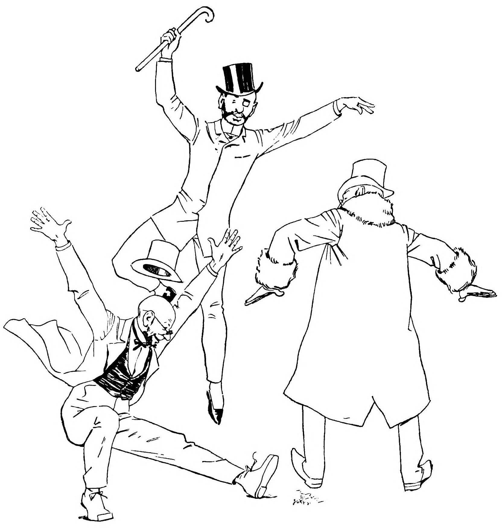 The bankers expressing their joy